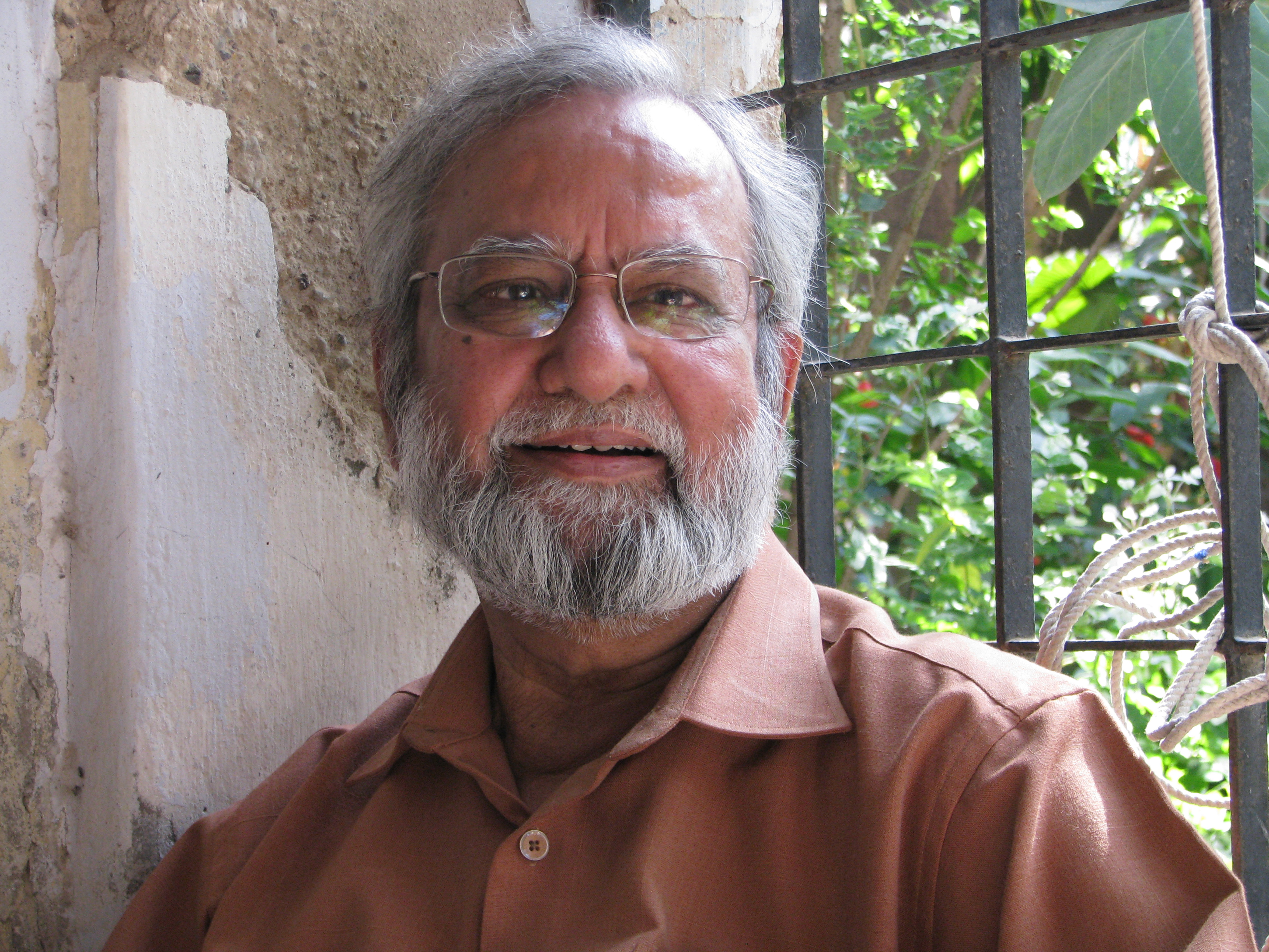 Painter and poet Gulam Mohammed Sheikh at Ahmedabad, 2008